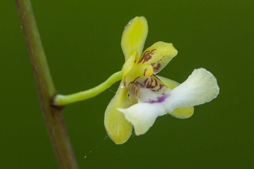 Single flower of Oeceoclades lonchophylla